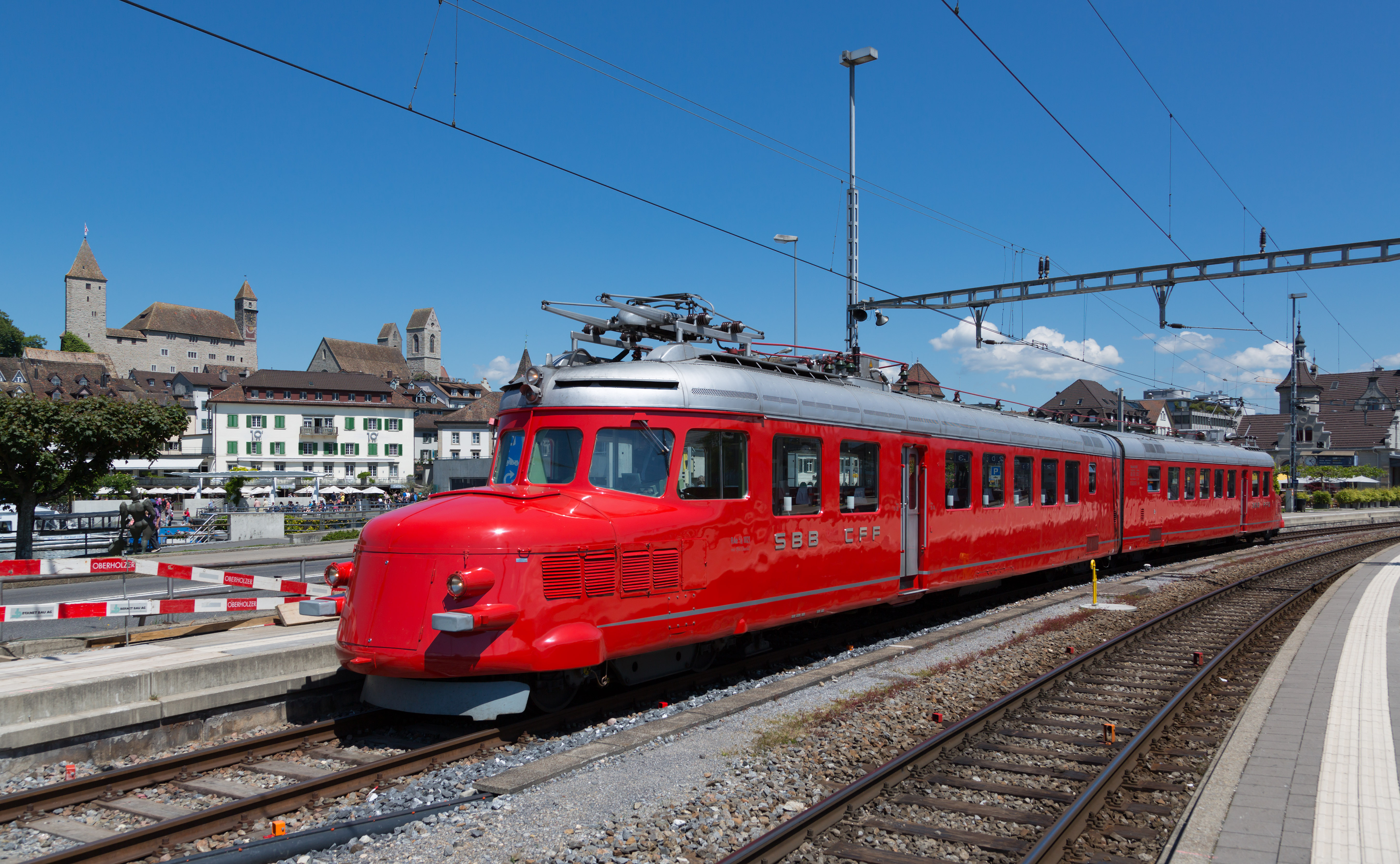 "Red arrow" RAe 4/8 1021, nicknamed "Churchill-Pfeil", at Rapperswil. The train is run by SBB Historic and is usually chartered for all kinds of events several times a week.